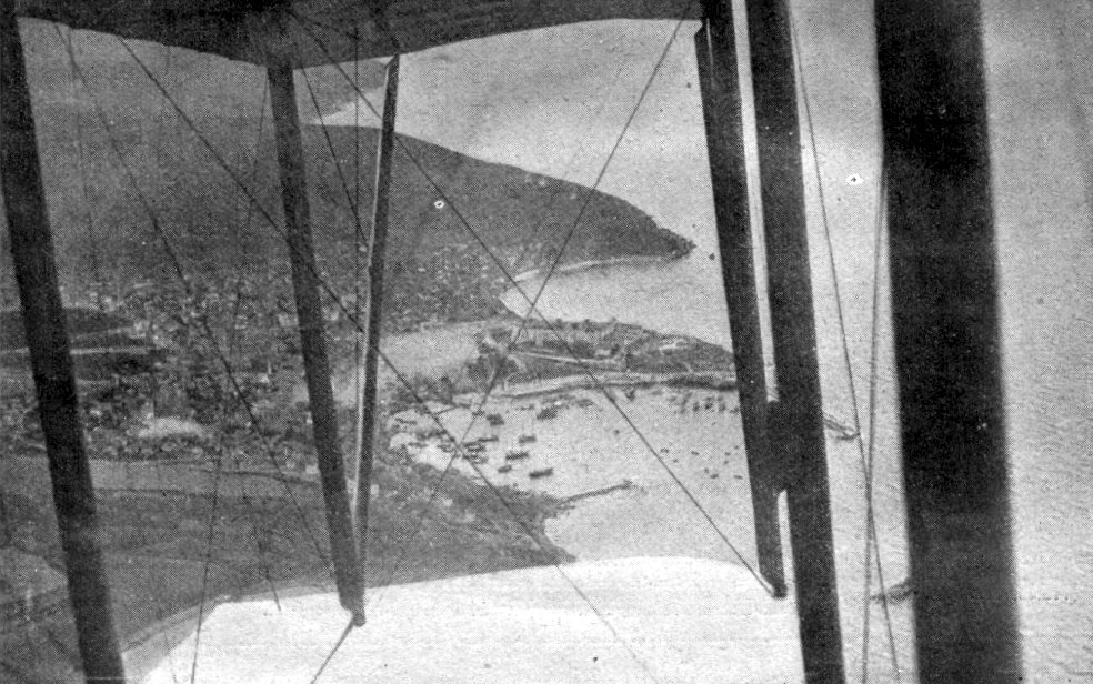 Aerial view of a Turkish town on the Dardanelles, possibly Gelibolu, taken by a French aircrew during the Battle of Gallipoli, 1915. Caption reads: View of a Tenedos as seen from a French aeroplane. As over Eastern and Western Europe, the Alllies aircraft services are proving invaluable in the Dardanelles operations.